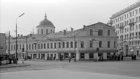 Moscow Bolshaja Nikitsky street 32